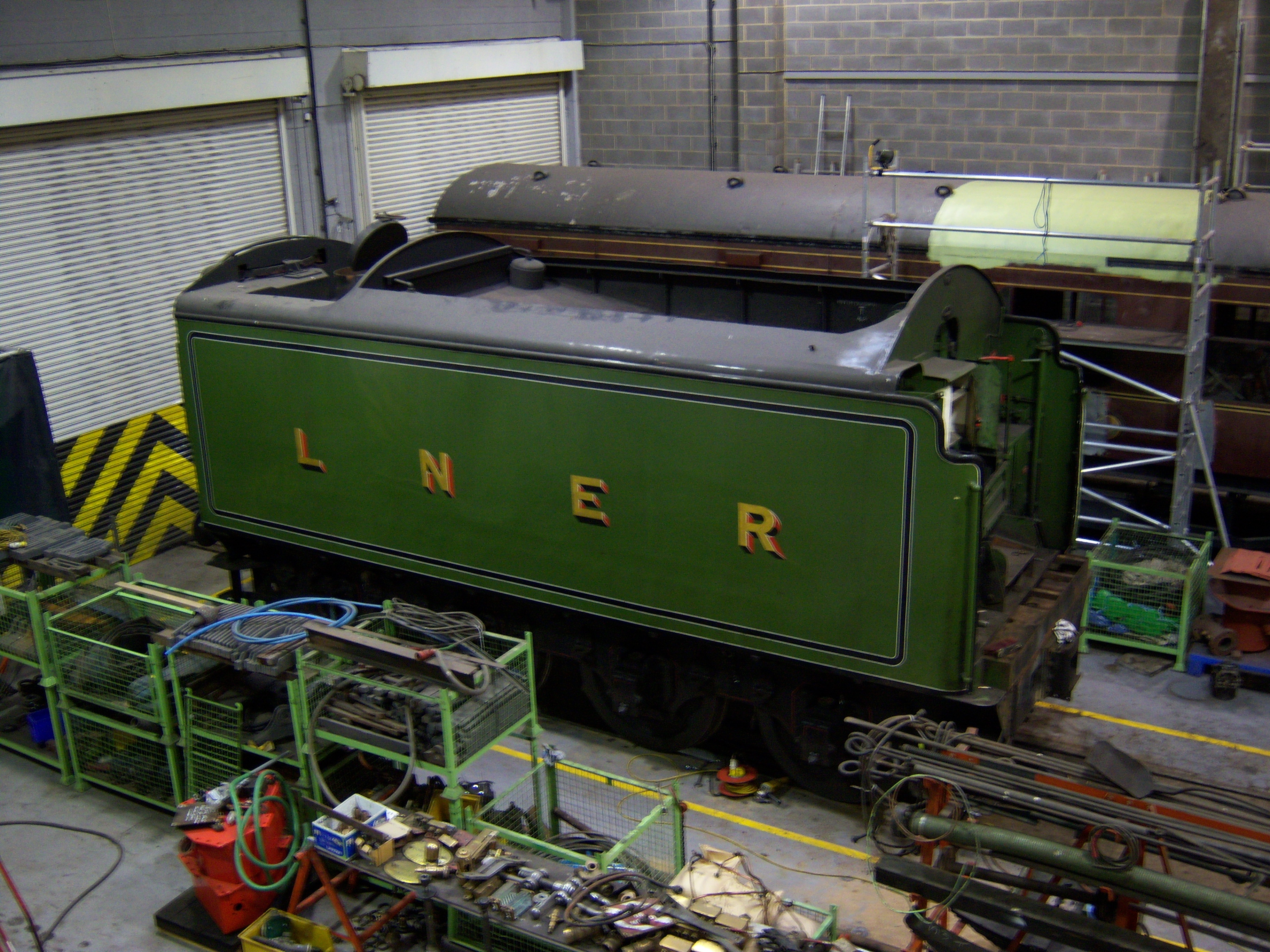 The corridor tender of 4472 Flying Scotsman in the National Railway Museum workshop